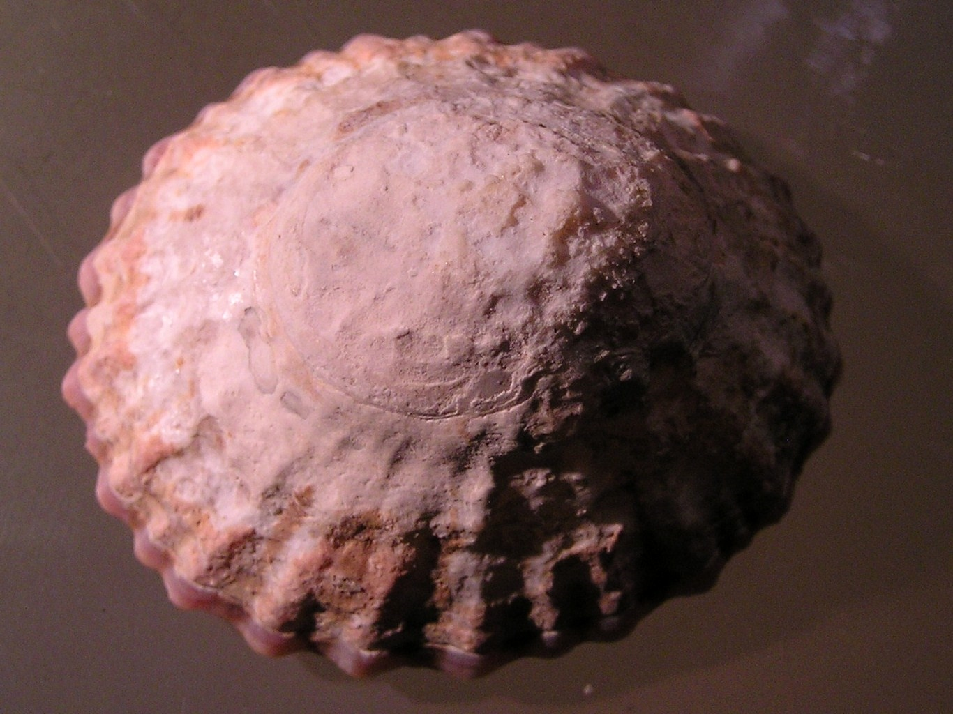 Cellana solida (Blainville, 1825); a keyhole limpet from the family Fissurellidae; Southern Australia